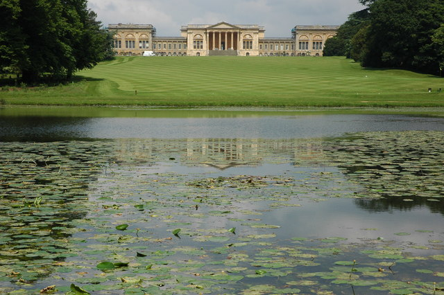 Stowe House